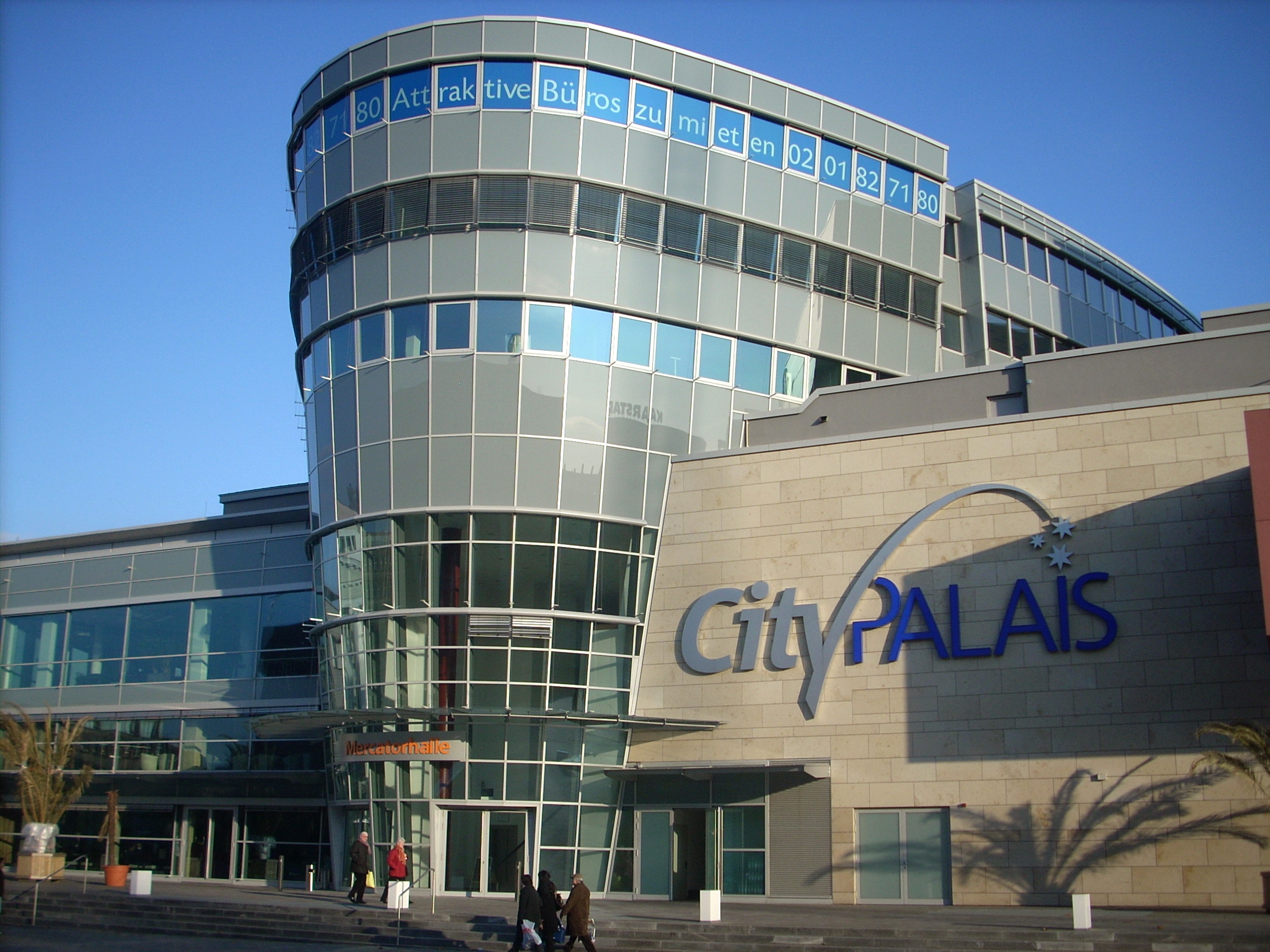 Entrance to the “Mercatorhalle” in Duisburg